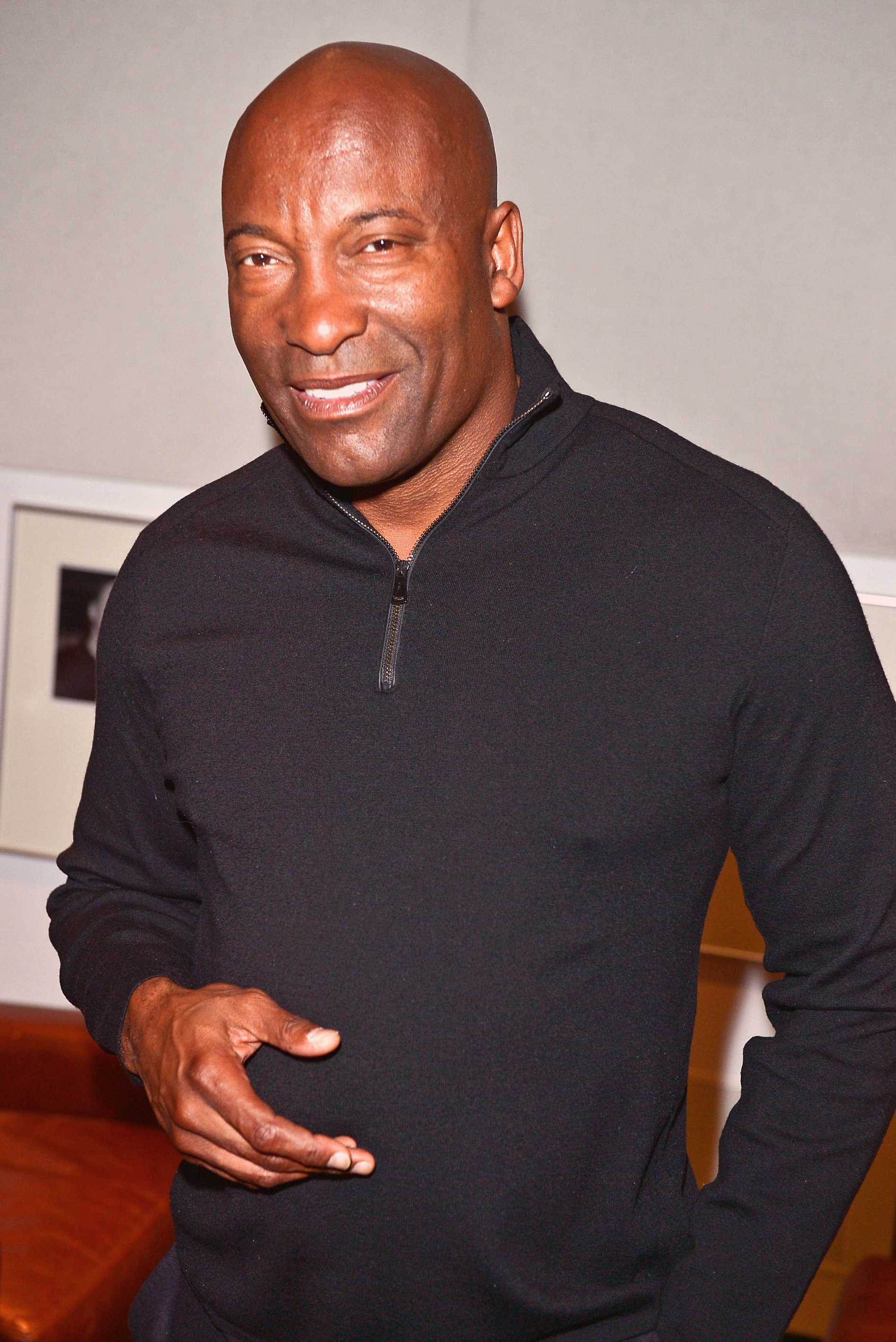 Presented by TD and BAND (Black Artists' Network in Dialogue), Clement Virgo Productions and CFC. and hosted by Garvia Bailey (CBC Radio 1), we took a look at Singleton’s influential body of work (BOYZ N THE HOOD, POETIC JUSTICE, SHAFT, BABY BOY) and talked with the iconic filmmaker about his inspirations, his filmmaking process, and reflecting the black experience in film. Singleton's 1991 film debut Boyz N the Hood received Academy Award® nominations for Best Director and Best Screenplay. At 24, he became the youngest person ever nominated for the Best Director Oscar®, as well as the first African-American to be nominated. This event was part of TD's Then and Now series, an inspiring and entertaining cultural showcase of one of Canada's prominent communities. The lineup of events includes films, concerts, exhibitions, and performances by a host of Canadian and international artists. For more information, visit: Photo by George Pimentel.